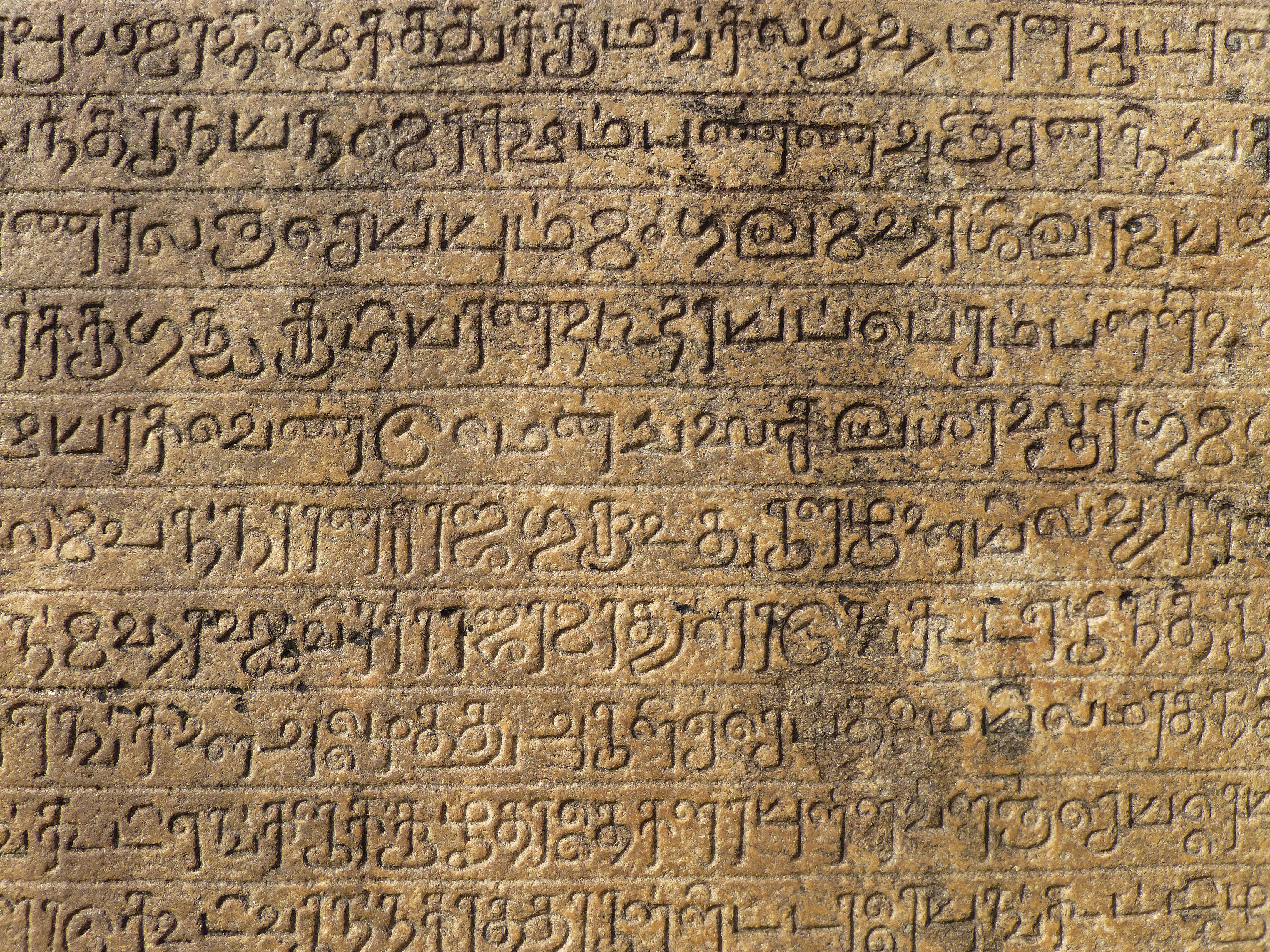 Polonnaruwa Velaikkara Slab Inscription. This Polonaruwa inscription is really interesting; it is Vatteluttu script (Tamil) with Grantha script for Sanskrit words, as was a common style historically.